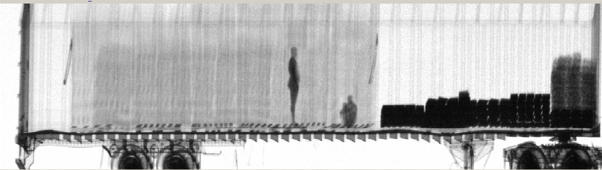 Gamma-ray image of a truck with 2 stowaways in a container of Styrofoam trays entering U.S. from Canada at Buffalo, N.Y. taken with a VACIS system. Image taken using 1.25 MeV photons.